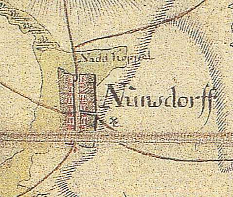 Nunsdorf auf der Schmettau'schen Karte von 1767-87, Nunsdorf, Stadt Zossen, Brandenburg, Deutschland